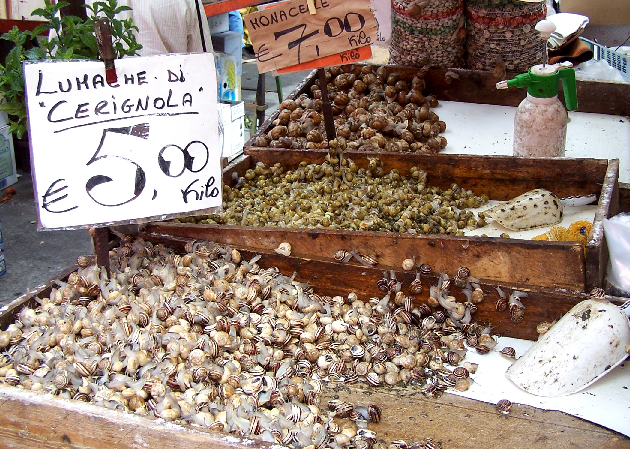 Snails for sale on a market in Torino, Italy Front box and right-side bag: Eobania vermiculata, second box possibly juvenile Helix aperta or an exotic species, third box Helix, left-side box: various smaller sized species mixed; determined 04 June 2011 by Francisco Welter-Schultes